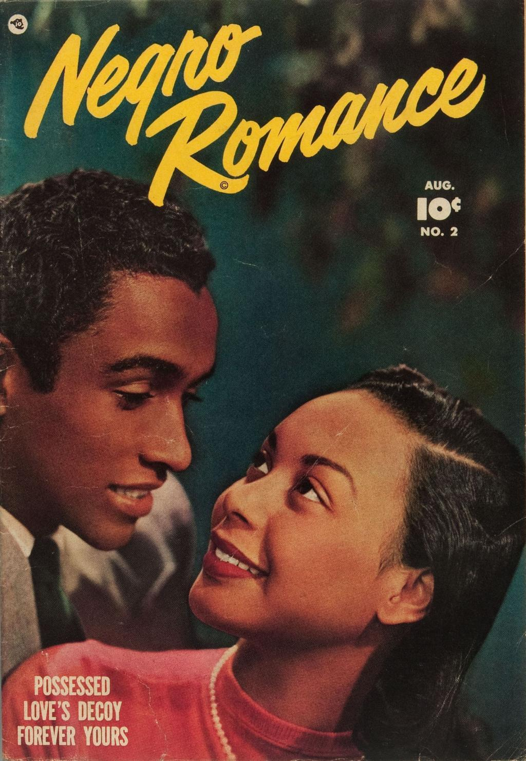 Cover of Negro Romance #2